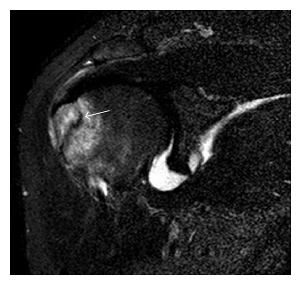 Occult fracture of the greater tuberosity on inversion recovery MRI. For context, see Occult fracture